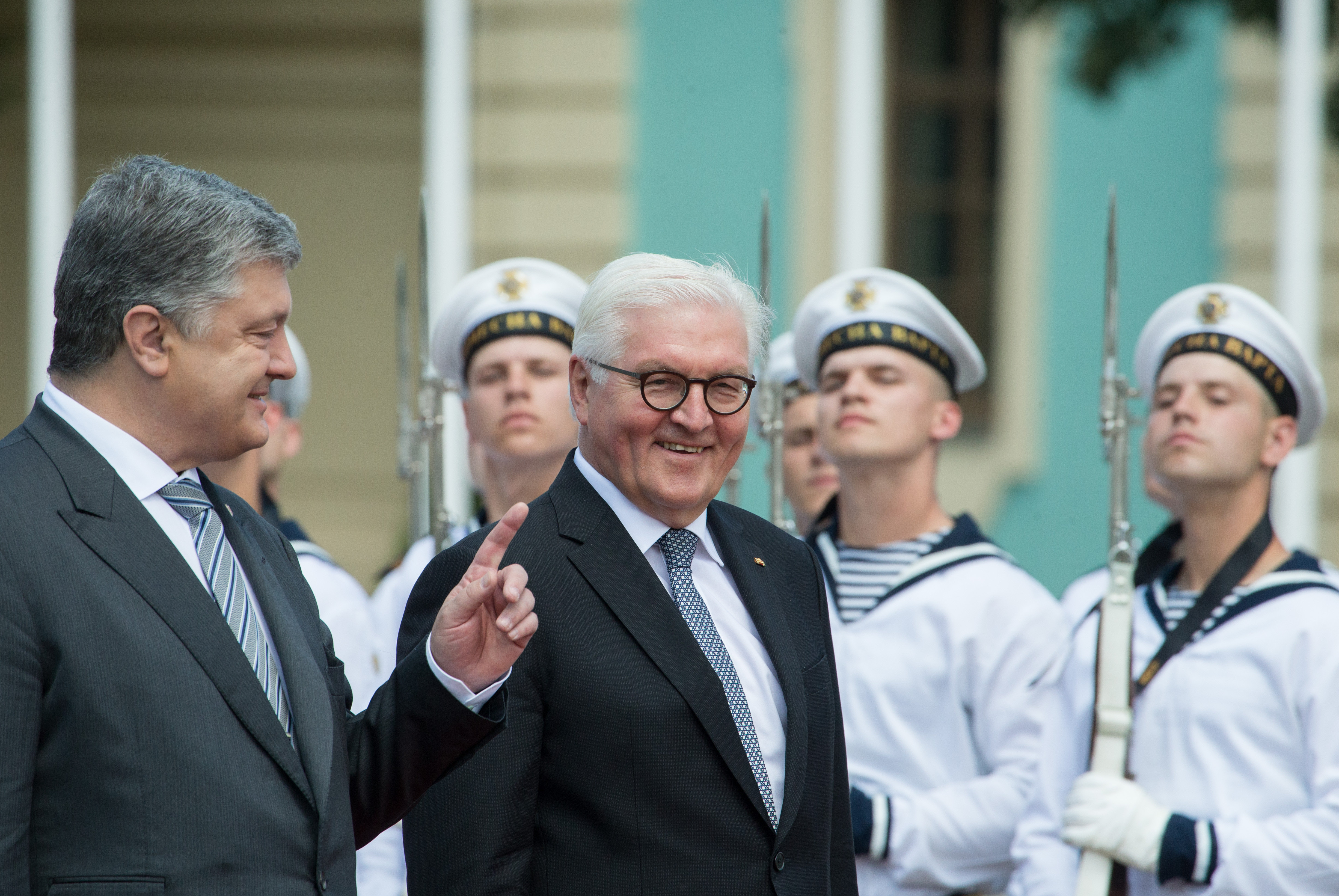 Meeting with the President of Germany